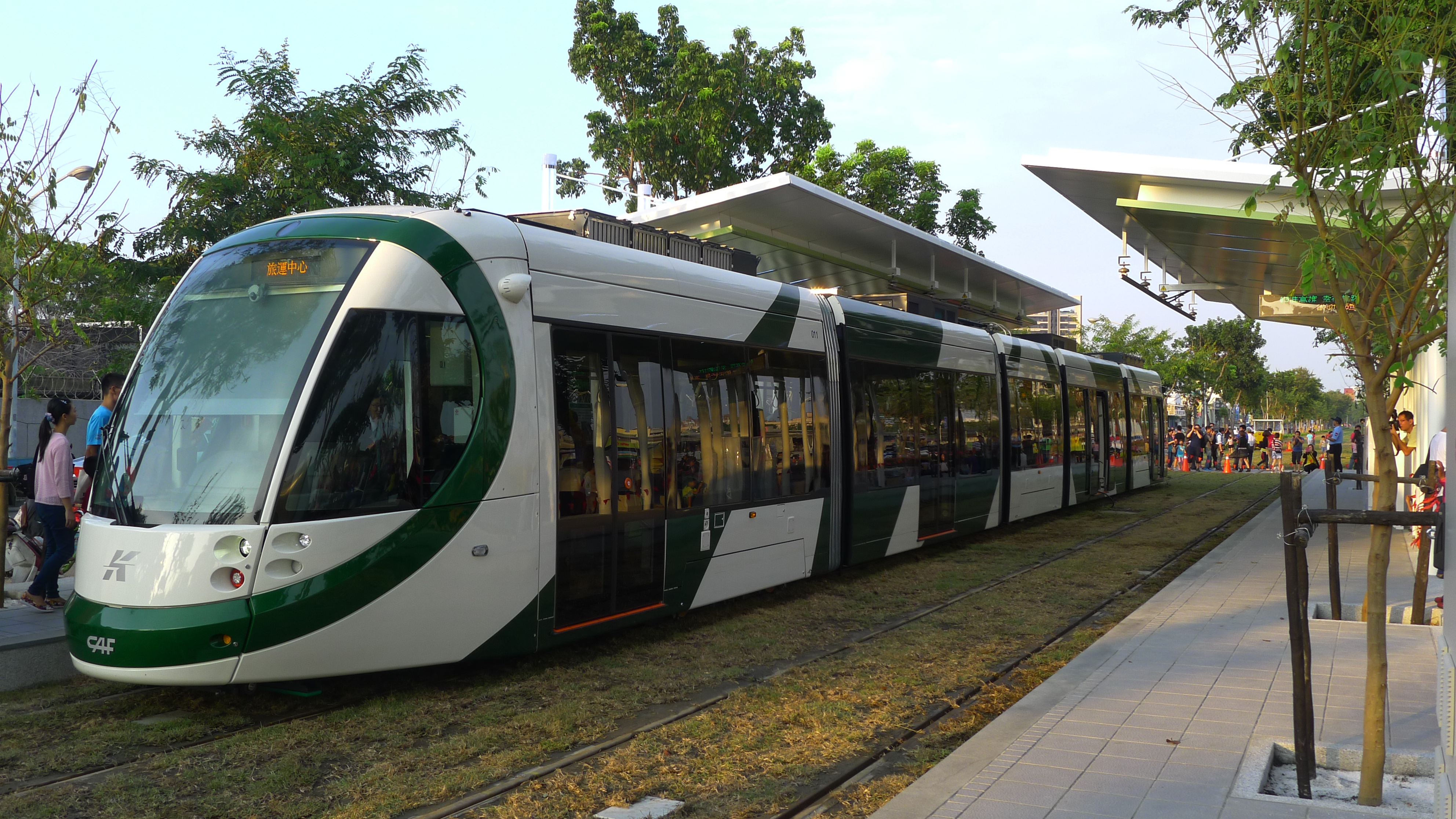 CAF Urbos 3 tram at C2 Station of Kaohsiung LRT Circular Line